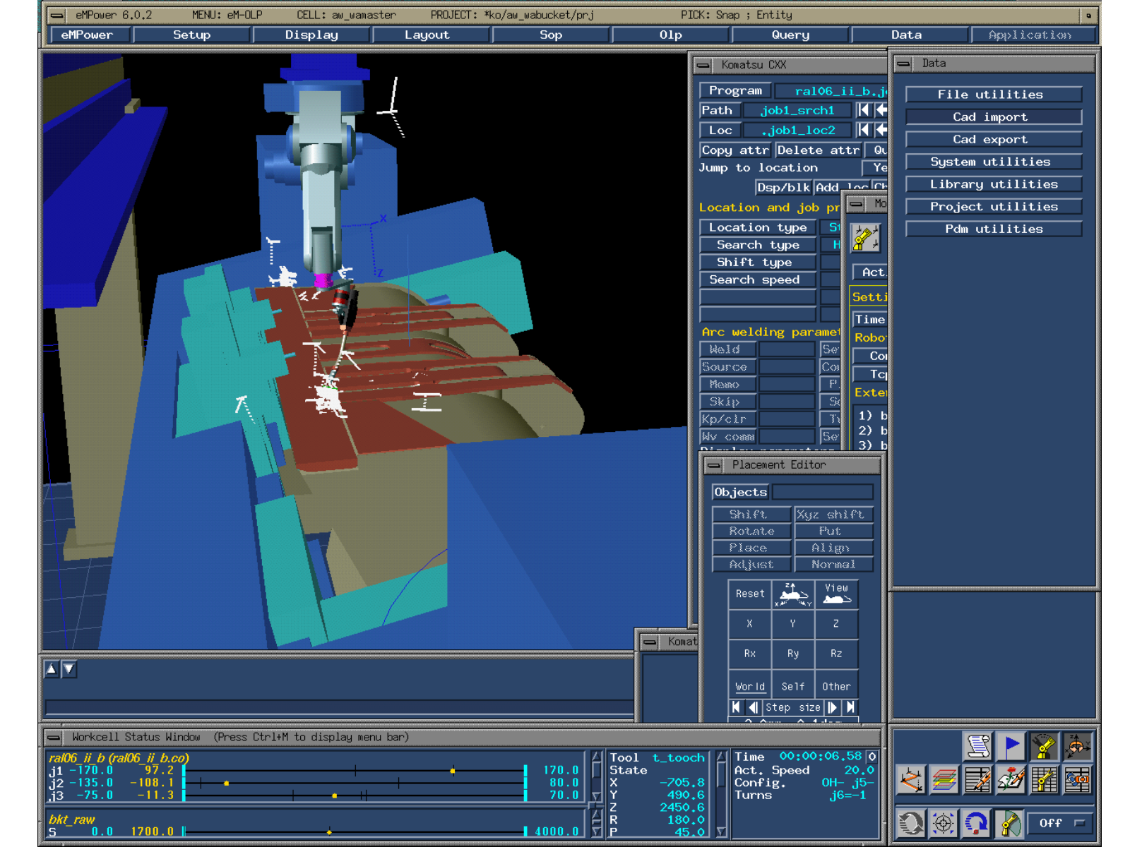 A picture of offline teaching for arc welding robot.